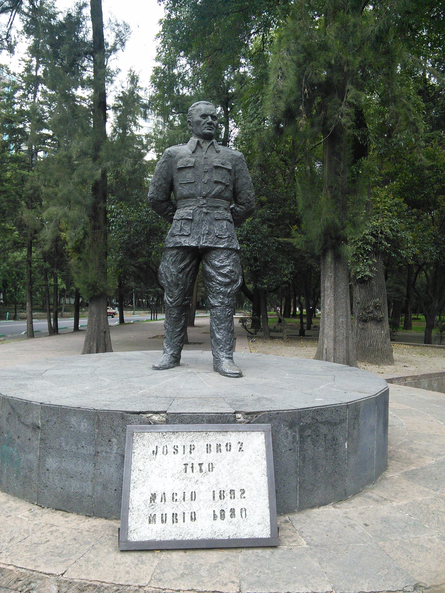 Titos monument in Mexico City on corner of Paseo de la Reforma and Calz. Mahatma Gandhi in Chapultepec Park